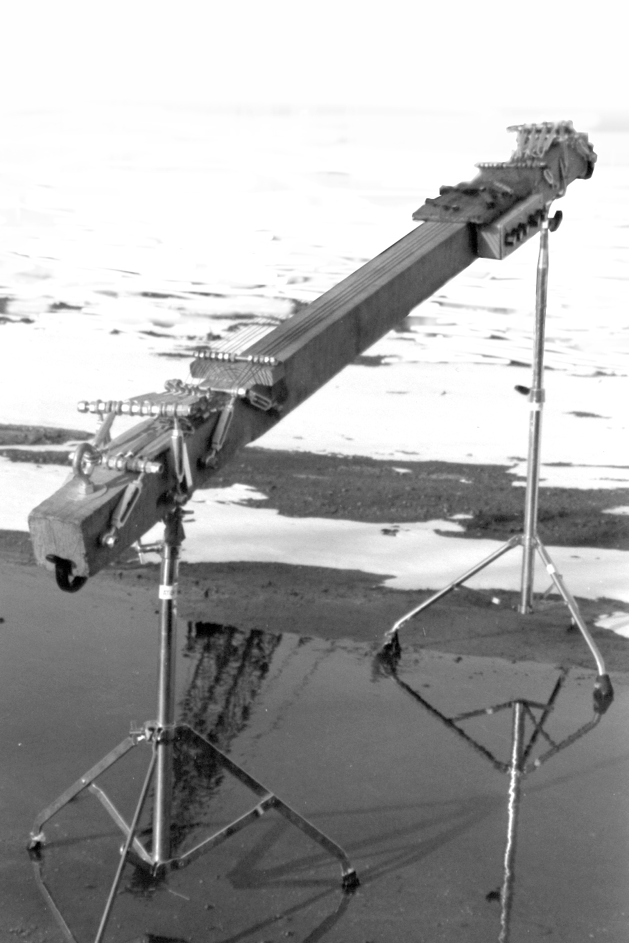 This is an image of the instrument designed by Matthew Schultz